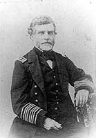 Photograph from Naval Historical Center